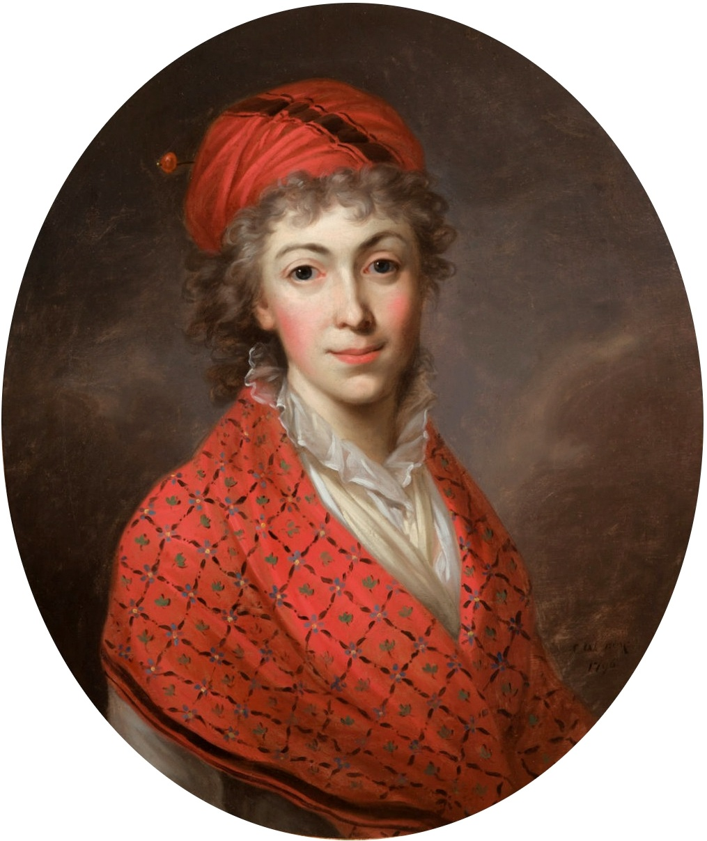 Portrait of Izabela Czartoryska